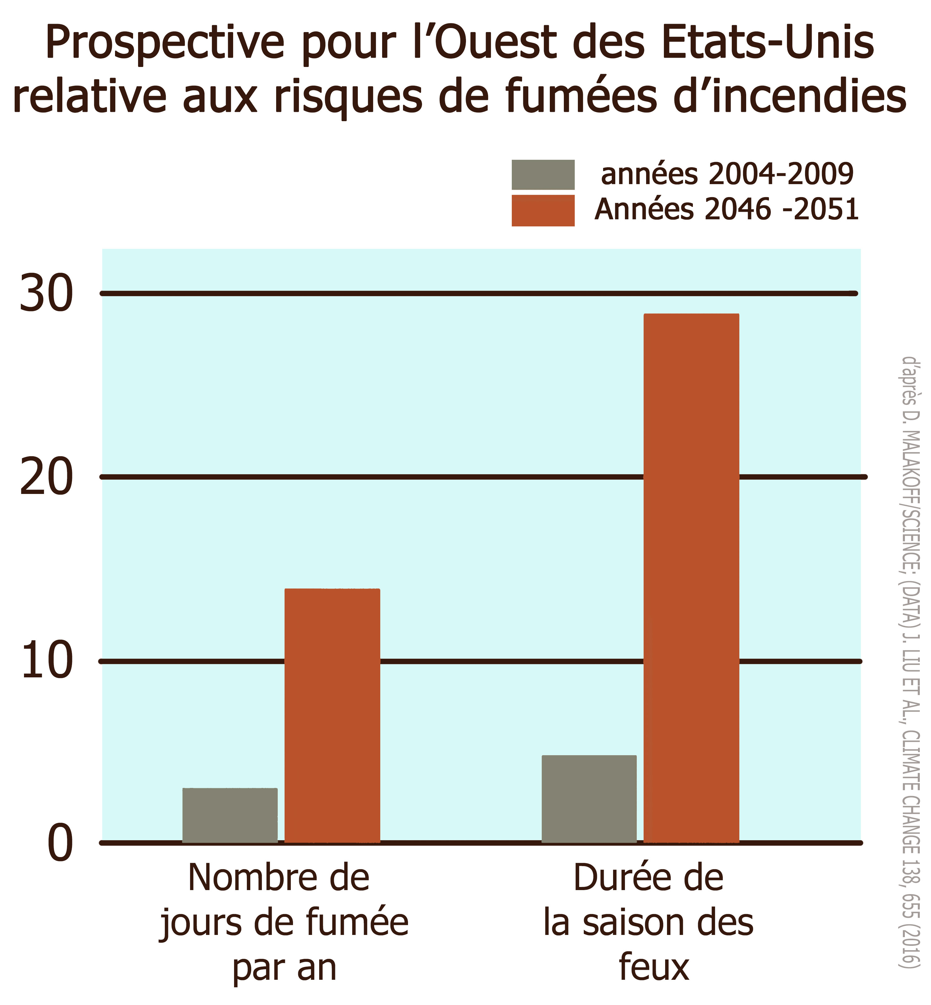 Model of risk of exposure to forest fire fumes in the western United States : Expected evolution of average exposure times in terms of the number of days per year, and the average duration of the "fire season" between the beginning and the middle of the 21st century. Reminder: These fumes are also emissions of greenhouse gases, and a source of atmospheric pollutants and toxic compounds. The means of combating fires are improving, but the risk (and probably the cost of firefighting) will most likely increase with climate change.